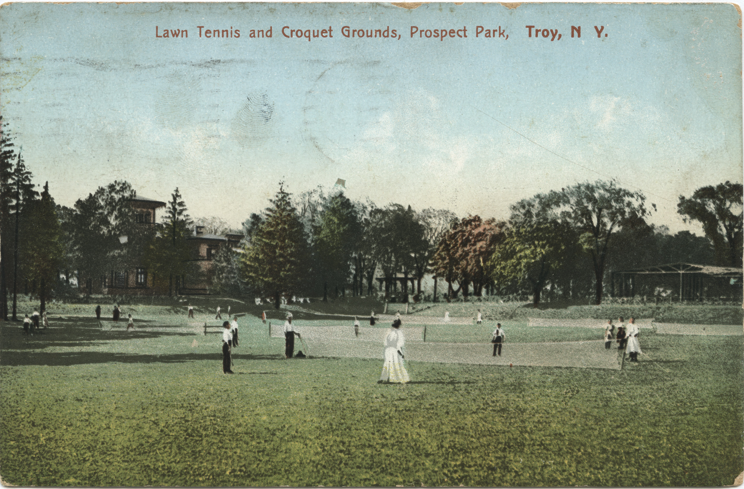 No known copyright restrictions. Please credit UBC Library as the image source. For more information, see Creator: Unknown Date Created: 1912 Source: Original Format: University of British Columbia. Library. Rare Books and Special Collections. Arkley Croquet Collection Permanent URL